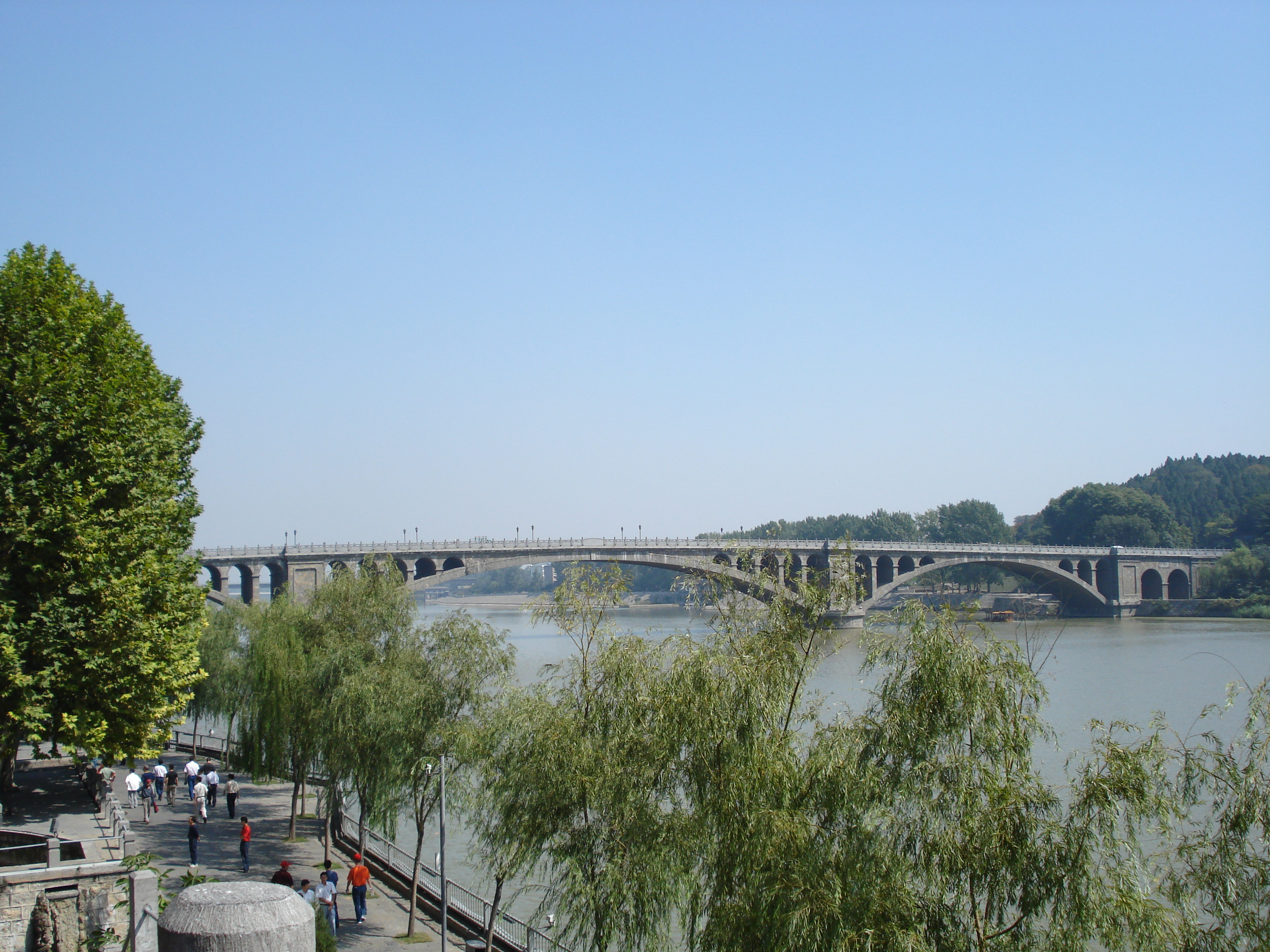 Luoyang, China - Longmen Bridge over Yi River (Yi He) near Longmen Grottoes (Longmen Shiku)